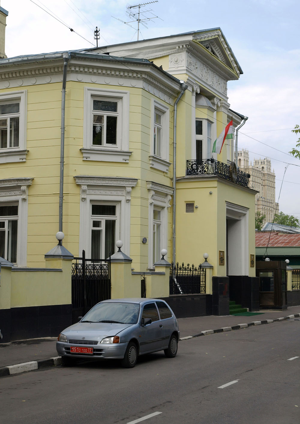 Embassy of Tajikistan in Moscow (Granatny Lane, 13)